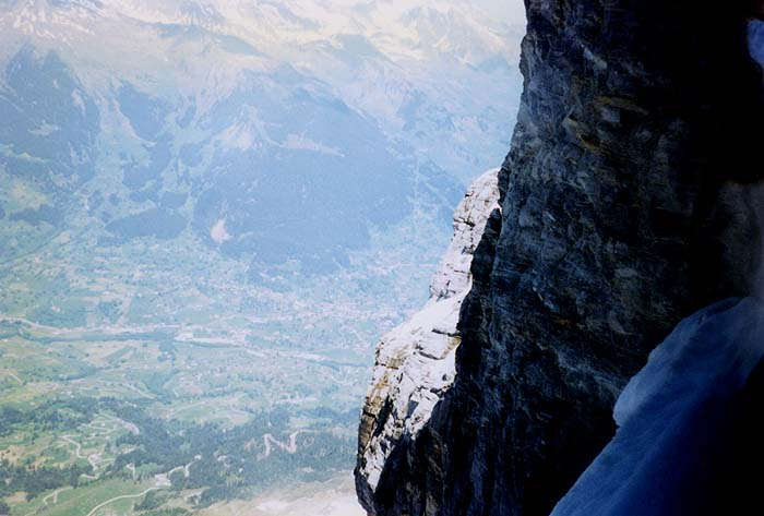 Photo of Grindelwald from the window in the Eiger north wall